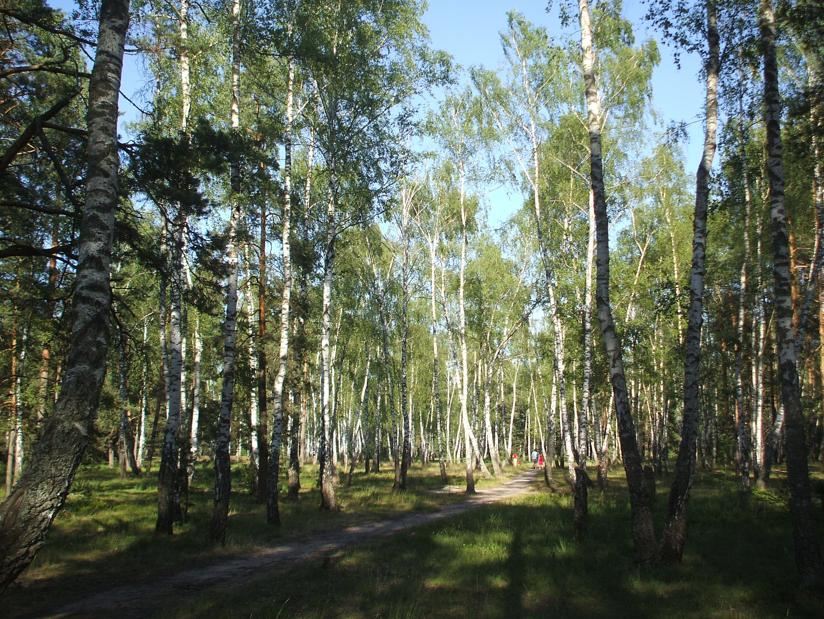 The forest in the town of Svietlahorsk, Homielskaja Voblasc, Belarus.